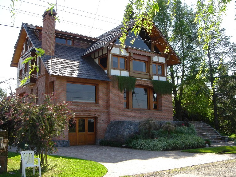 House designed by architects Osvaldo De Angelis and María De Luján Carlucci in the CUBE neighborhood of Belén de Escobar, Buenos Aires Province, Argentina.